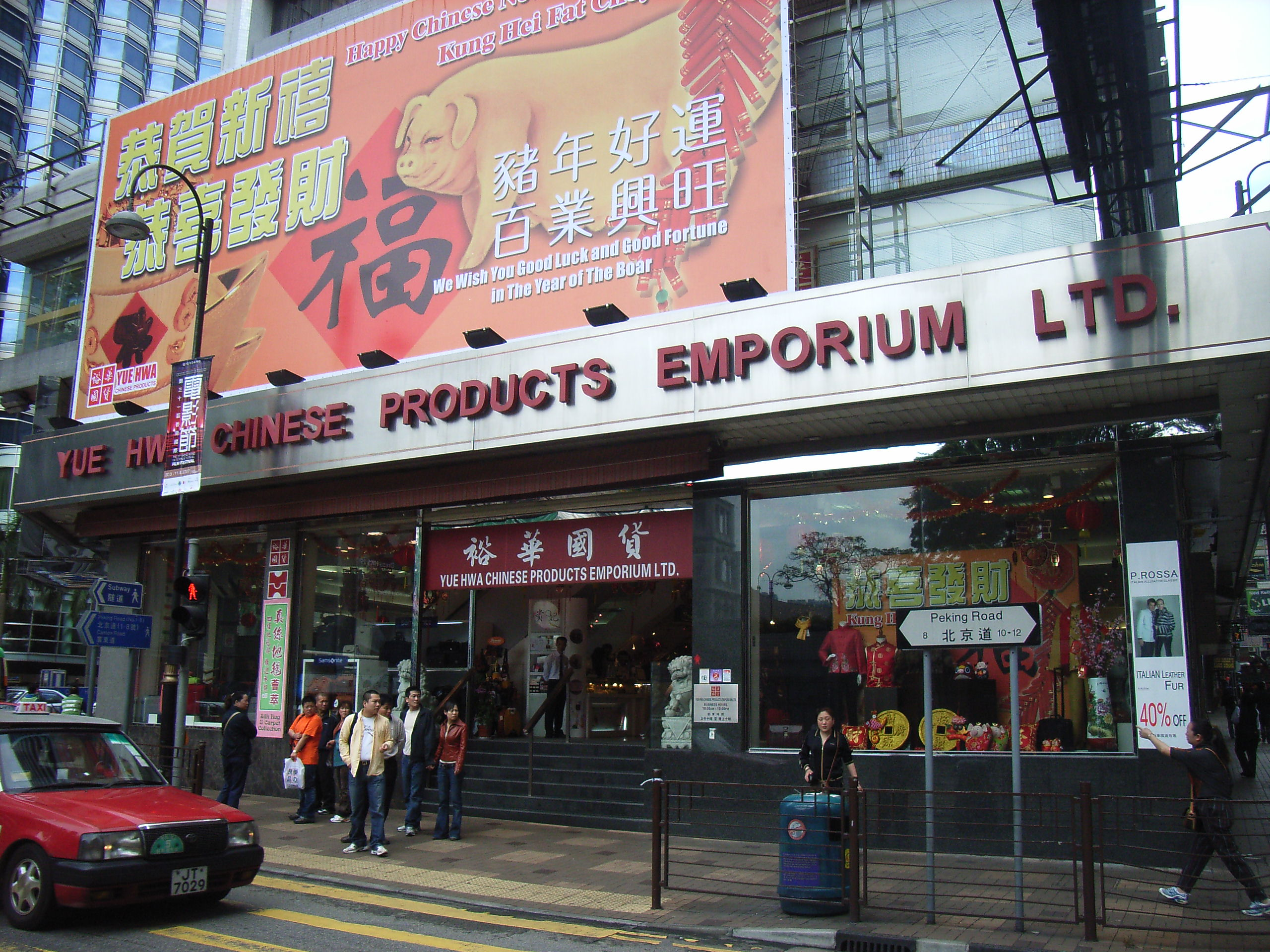 裕華國貨有限公司 (Yue Hwa Chinese Products Emporium Limited)，簡稱裕華國貨，是香港的一家曾經專業zh:入口zh:中國大陸出口消費商品及售賣的zh:百貨公司。 Photo created by .